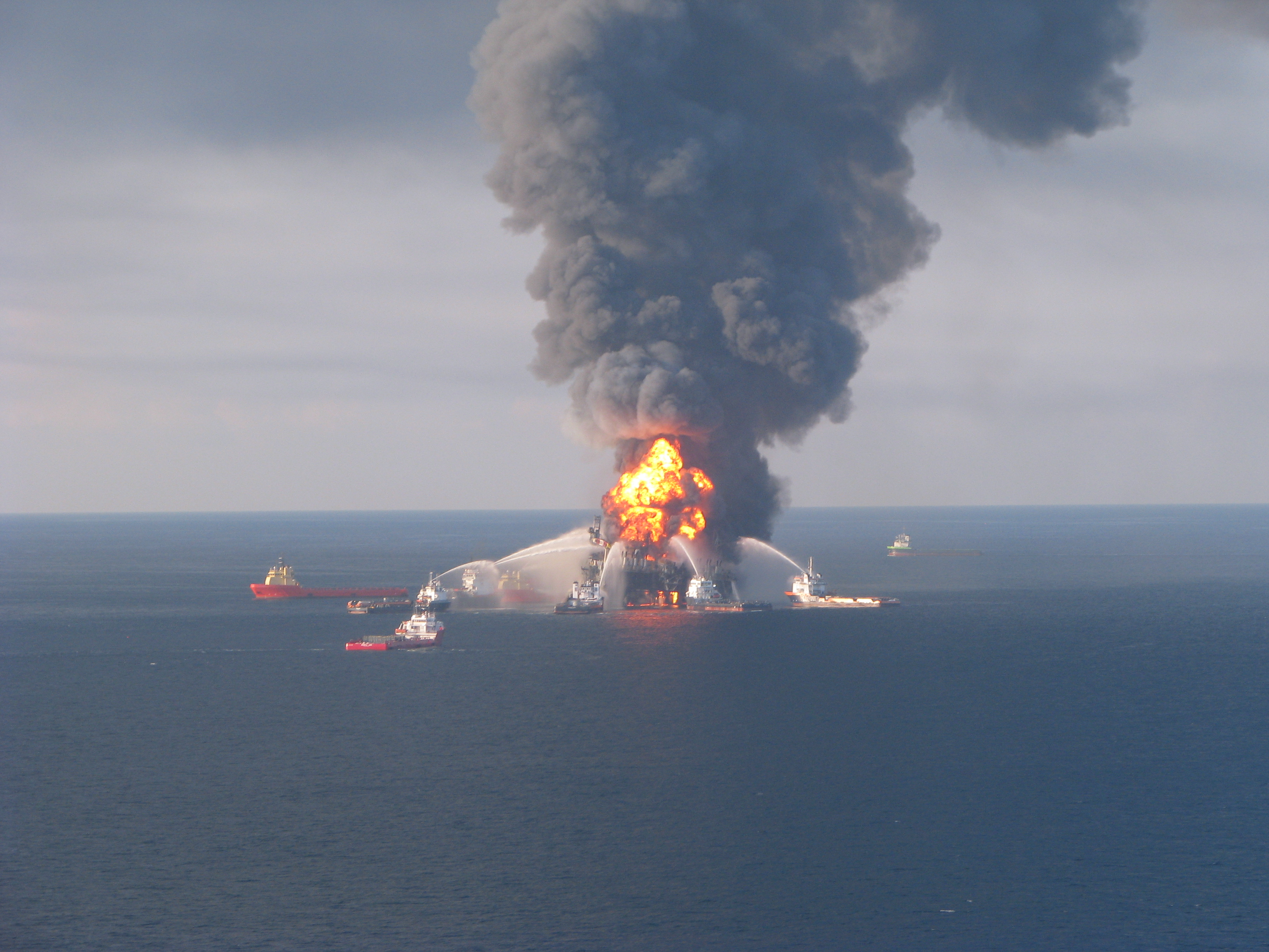 Fire boat response crews battle the blazing remnants of the off shore oil rig Deepwater Horizon April 21, 2010. A Coast Guard MH-65C dolphin rescue helicopter and crew document the fire aboard the mobile offshore drilling unit Deepwater Horizon, while searching for survivors April 21, 2010. Multiple Coast Guard helicopters, planes and cutters responded to rescue the Deepwater Horizon's 126 person crew.